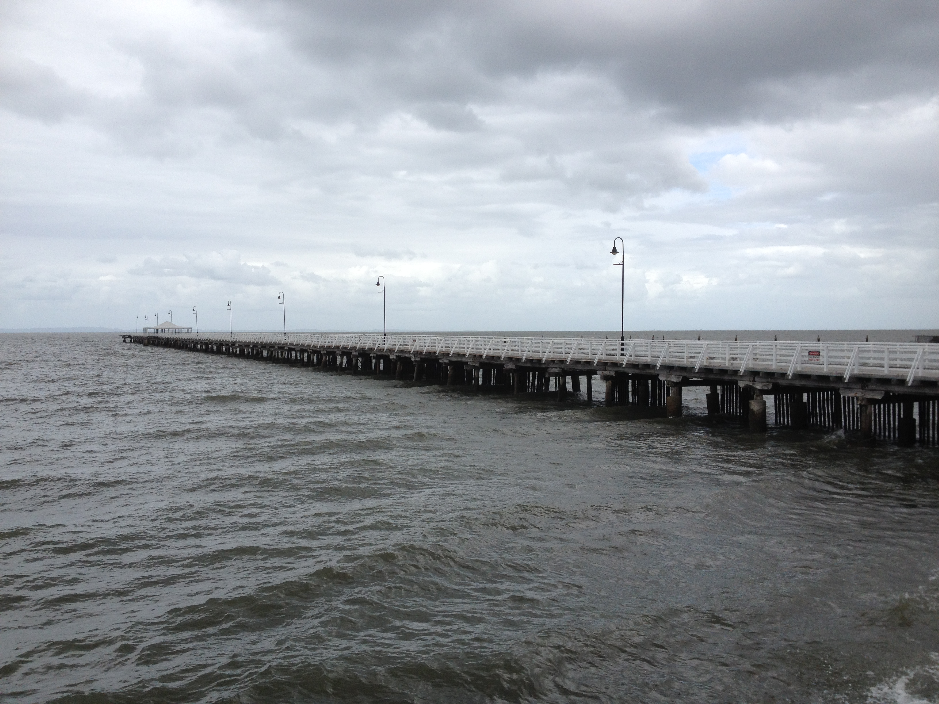 Shorncliffe Pier closed to public access from March 2012 until 2016